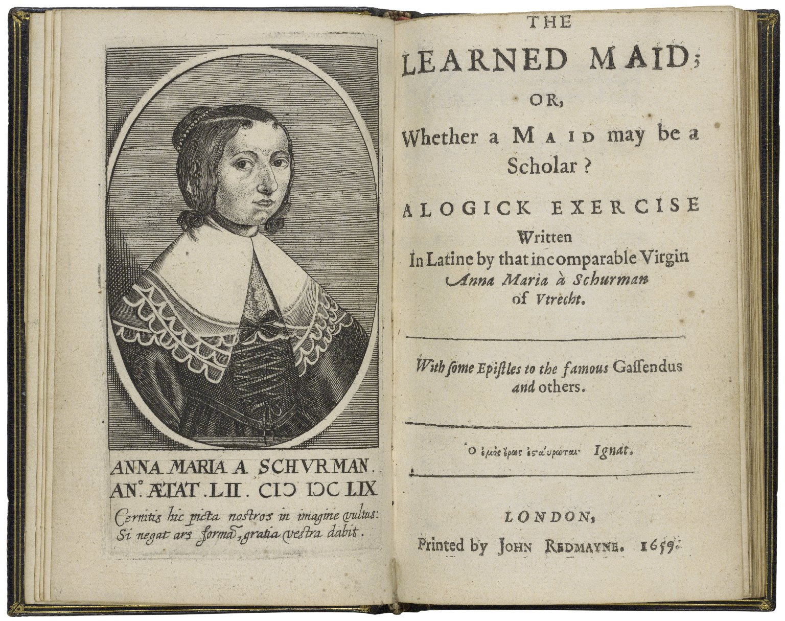 The title page and frontis of Anna Maria van Schurman's The Learned Maid.